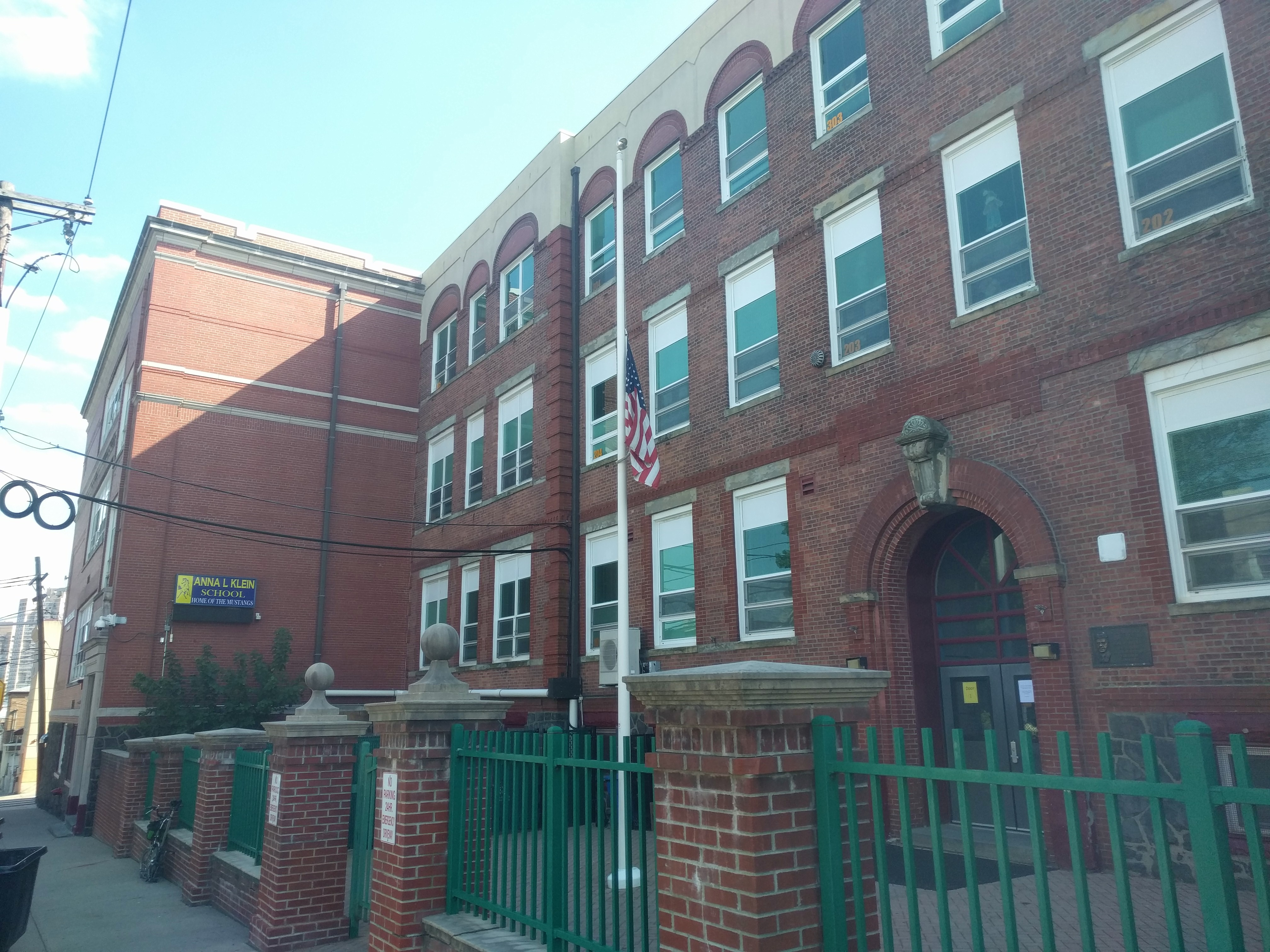 Looking south